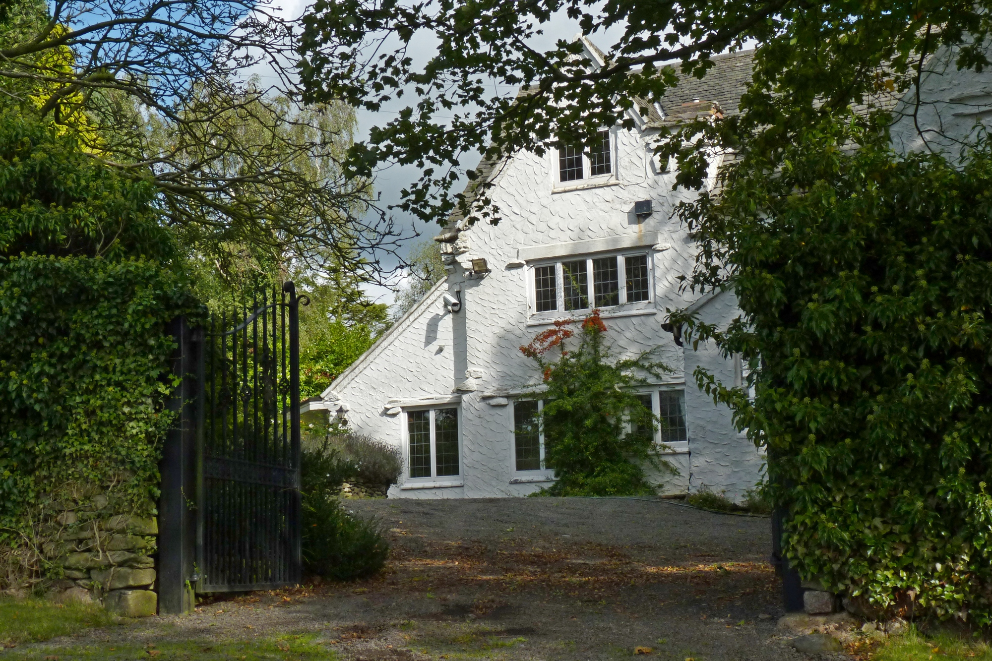 Designed by Ernest Gimson, and built by Detmar Blow in 1897 as a pair of Workmen's house, for James Billson, this house is now called Chitterman House, and has been enlarged beyond recognition. Three further Arts and Crafts houses close by, including Stoneywell, retain more of their original character.